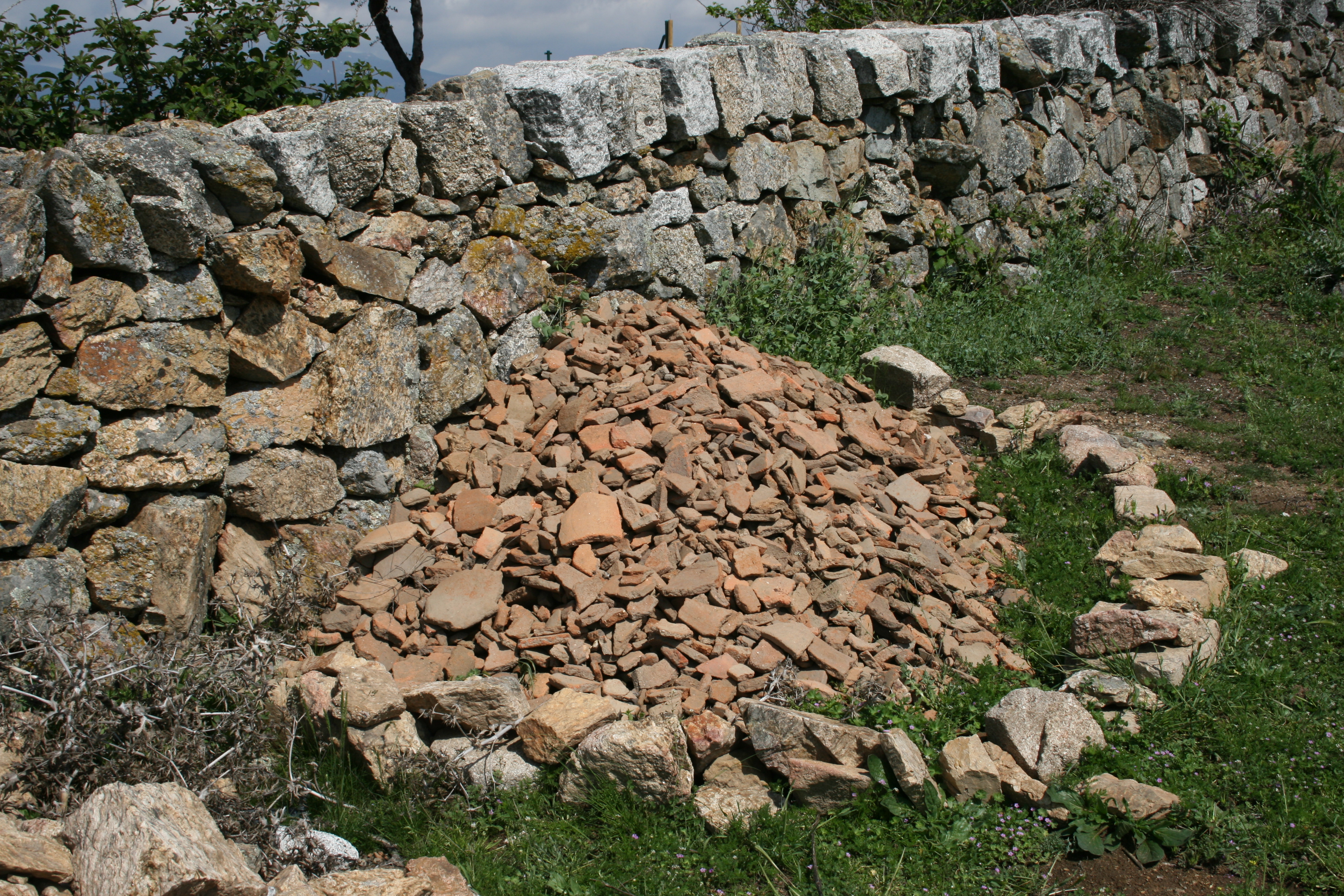 Remains of tiles. Visigothic settlement, 6th and 7th centuries. Dehesa de Navalvillar. Colmenar Viejo, Madrid. Spain.